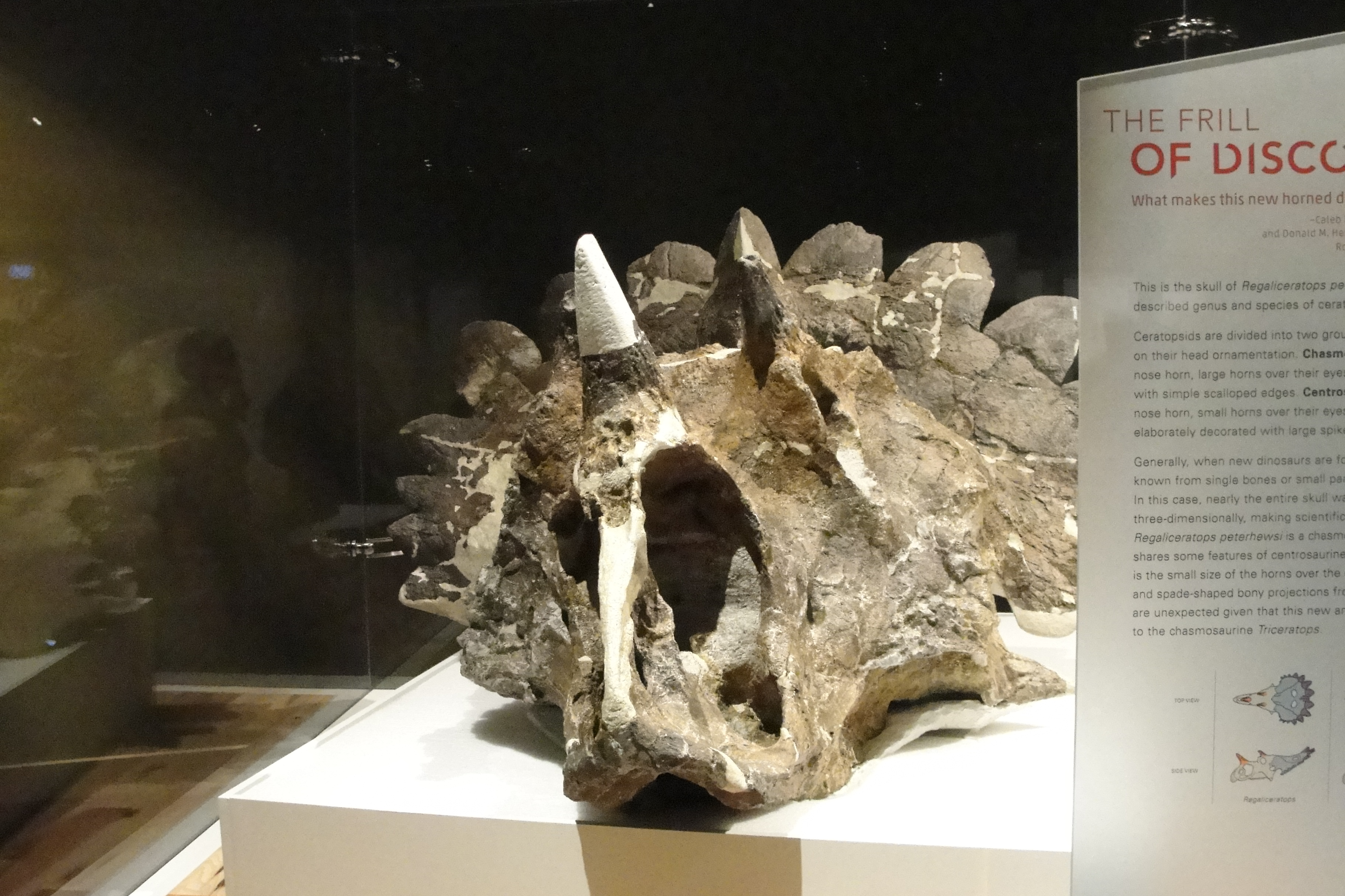 Skull of Regaliceratops on display at the Royal Tyrrell Museum of Paleontology in Alberta, Canada displaying facial ornamentation.